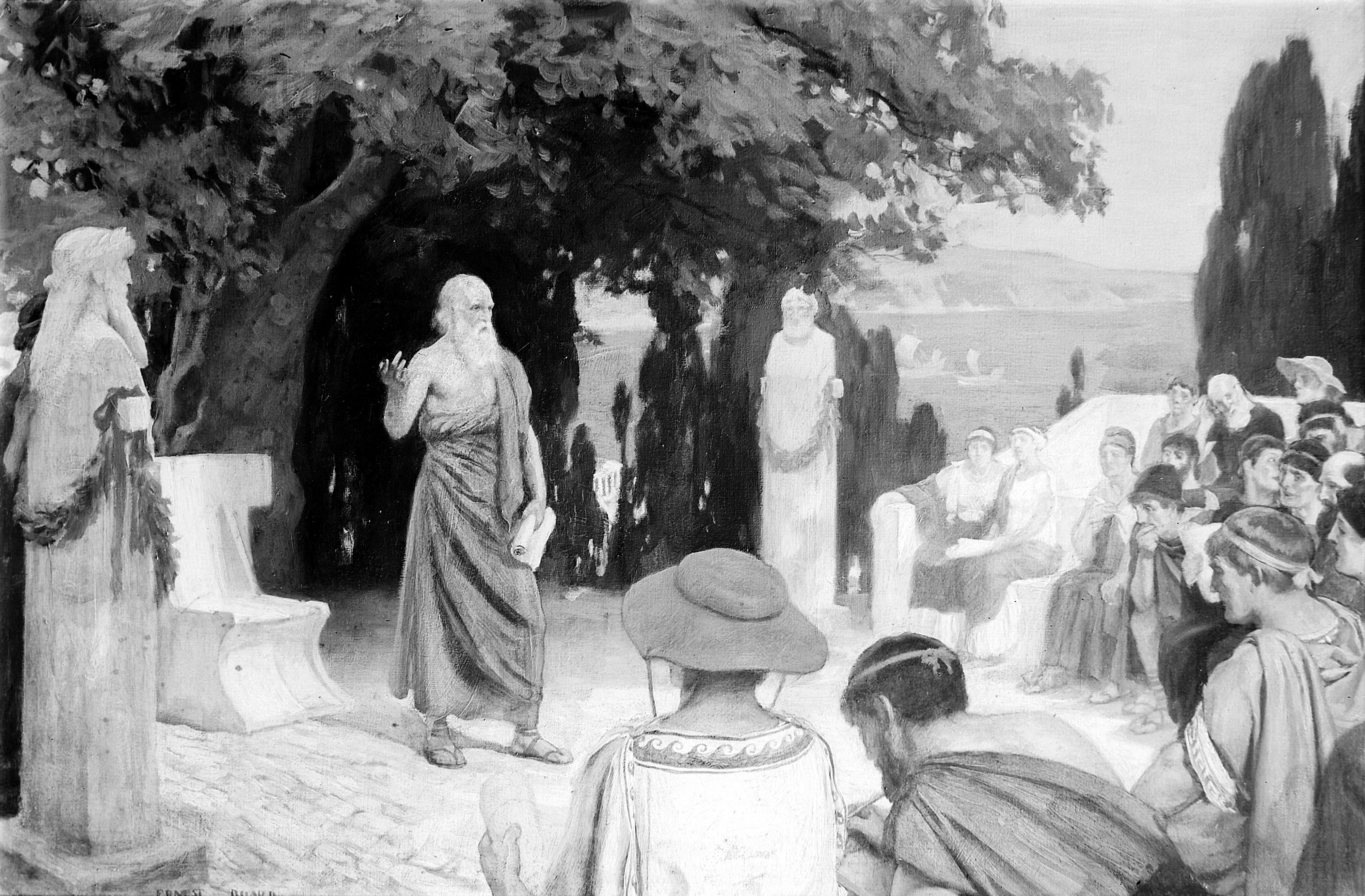 Hippocrates lecturing to his students under the plane tree on the island of Cos. Wellcome Images Keywords: Ernest Board